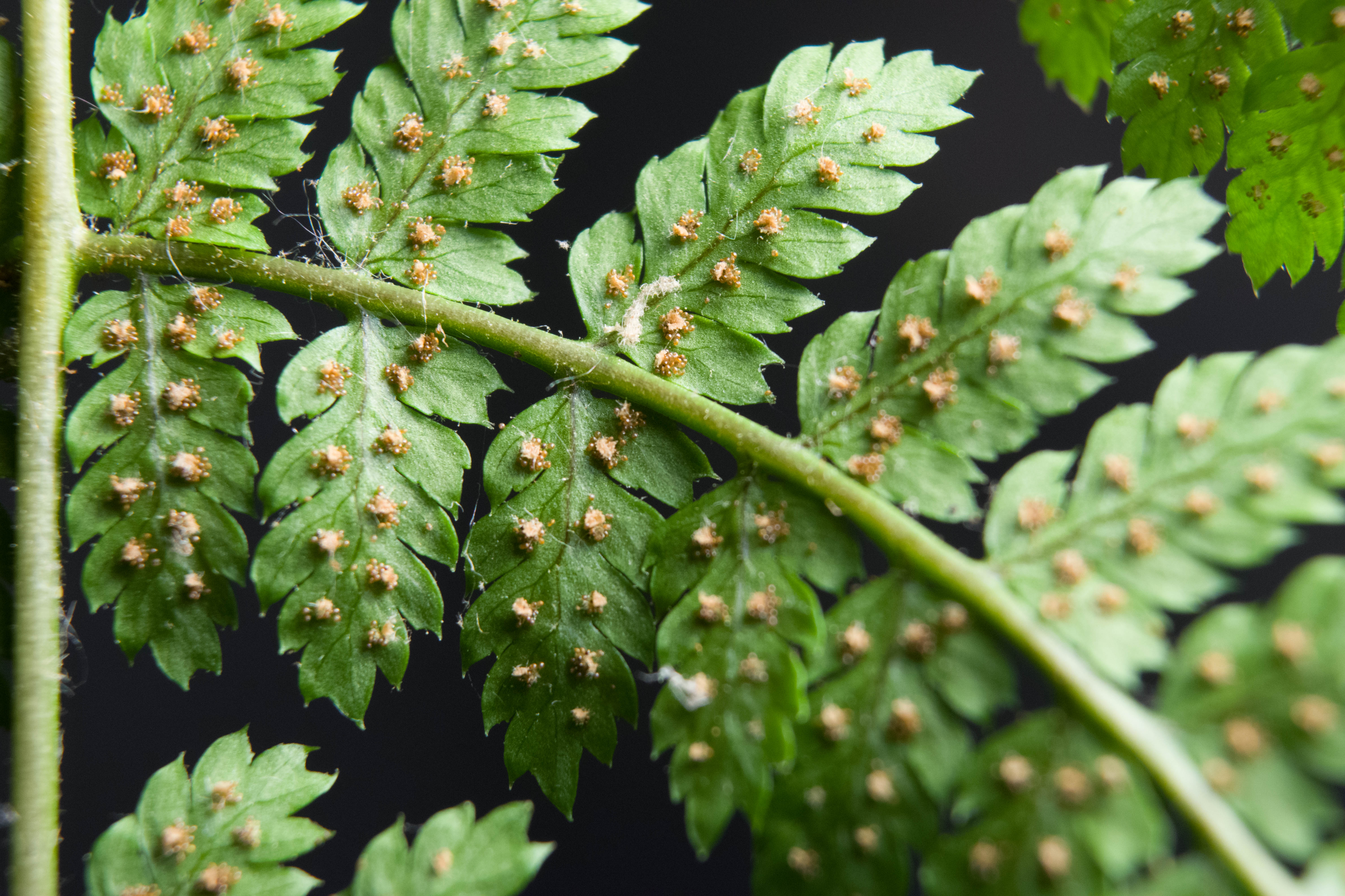 showing sori